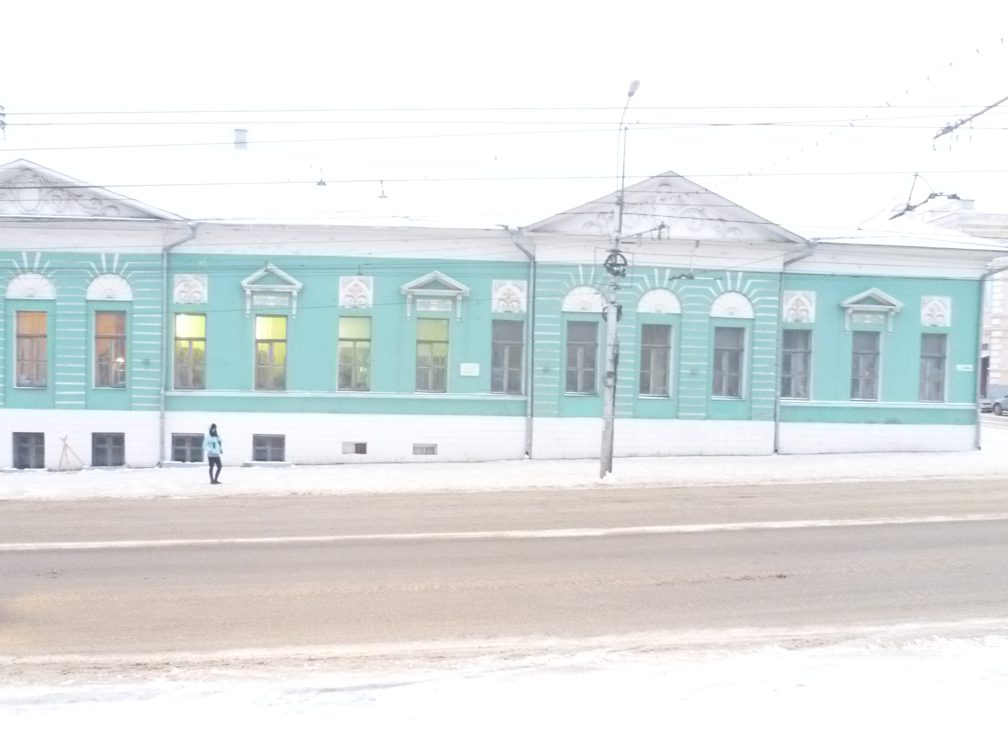 The ROUNB branch, on Nikolodvoryanskaya Street in Ryazan. Built in 1804.